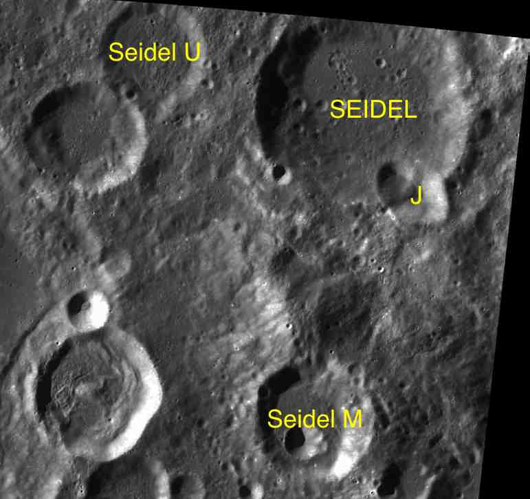 Part of the chart LAC-118 used for the presentation